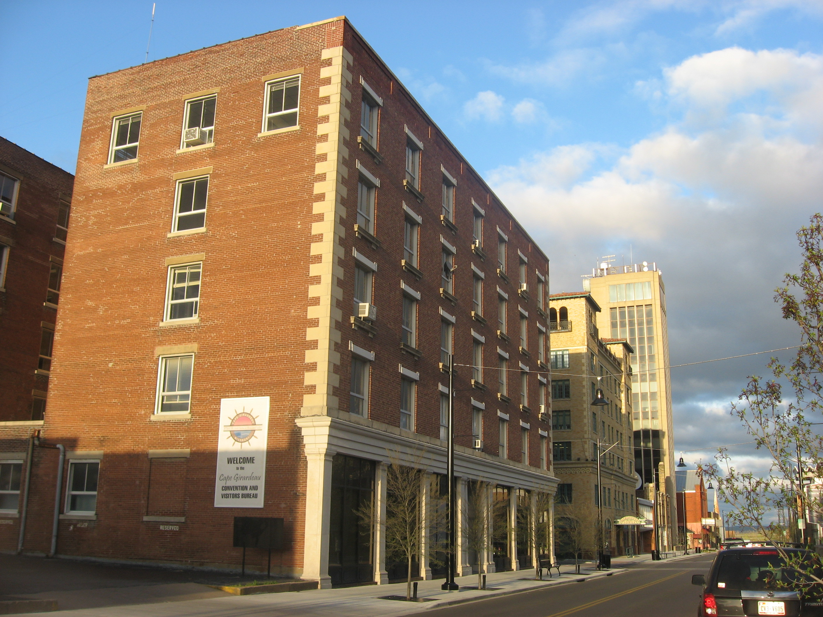 Buildings on the northern side of Broadway Street on both sides of the Fountain Street intersection in downtown Cape Girardeau, Missouri, United States. Prominent buildings are the Himmelberger and Harrison Building in the foreground and the Marquette Hotel immediately past it. This portion of Broadway is part of the Broadway and North Fountain Street Historic District, a historic district that is listed on the National Register of Historic Places.